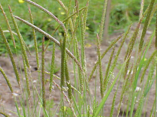 Species: Alopecurus myosuroides Family: Poaceae Image No. 2